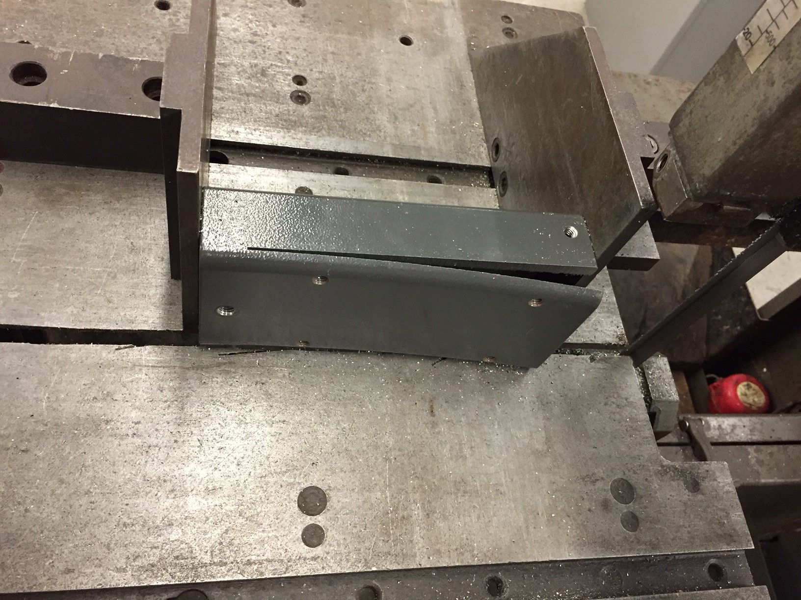 Residual stress in a hot-rolled HSS shape tubing